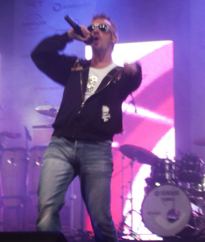 Description: Andrius Mamontovas, Lithuanian rock musician, songwriter and actor First upload by Naudotojas:Gnarls Barkley, 13:54, 2007 Kovo 12 Original file name Vaizdas:Mamutovas.JPG Original size 607 KiB, now cropped